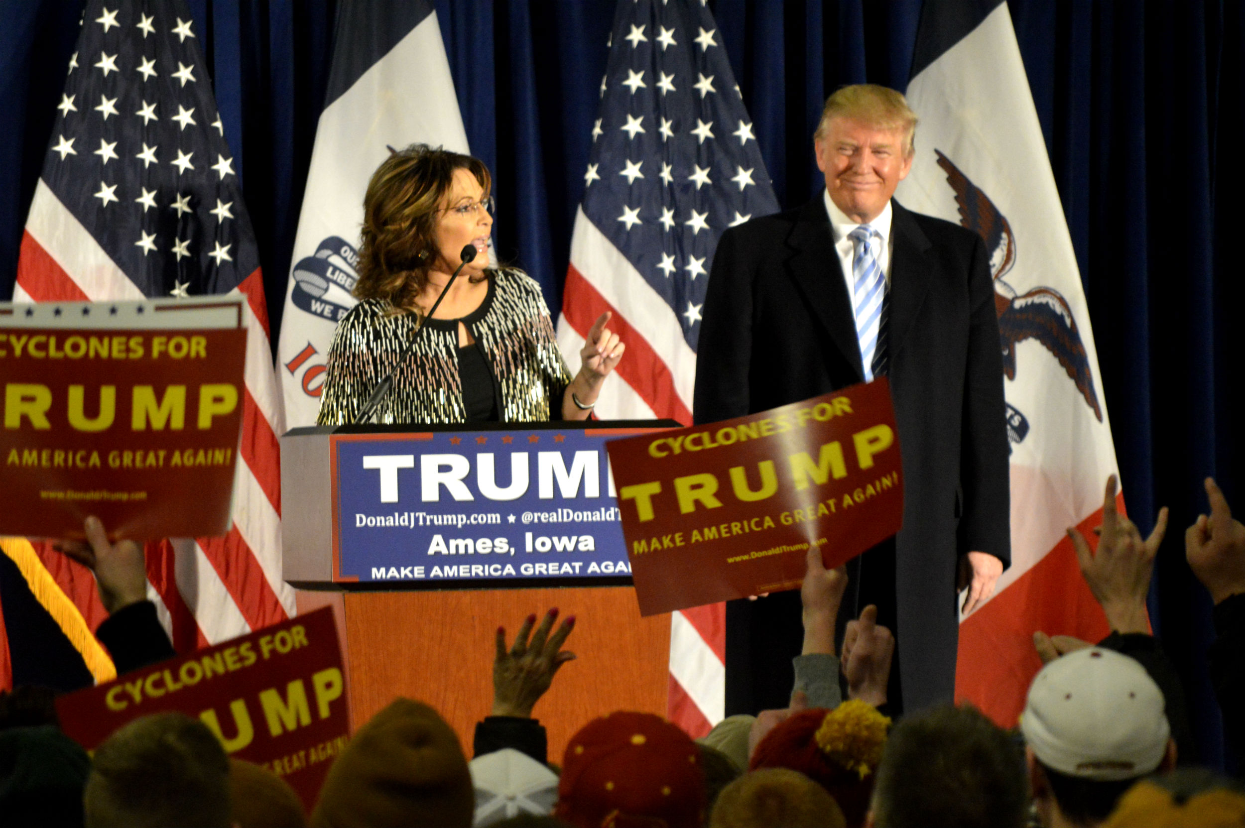 Former Alaska governor Sarah Palin speaks at a rally after endorsing Republican presidential candidate Donald Trump at Iowa State University in Ames, Iowa.